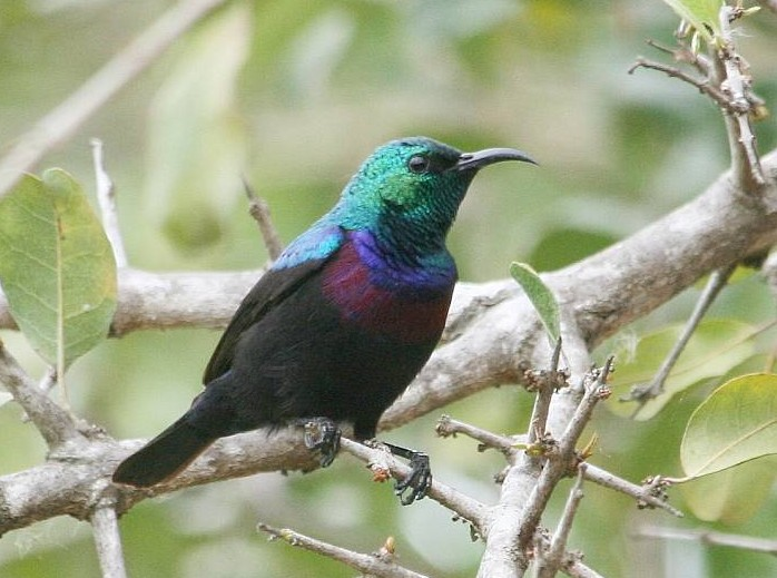 A male Purple-banded Sunbird (Cinnyris bifasciatus or Nectarinia bifasciata) at Ngwenya Resort, Mpumalanga, South Africa.